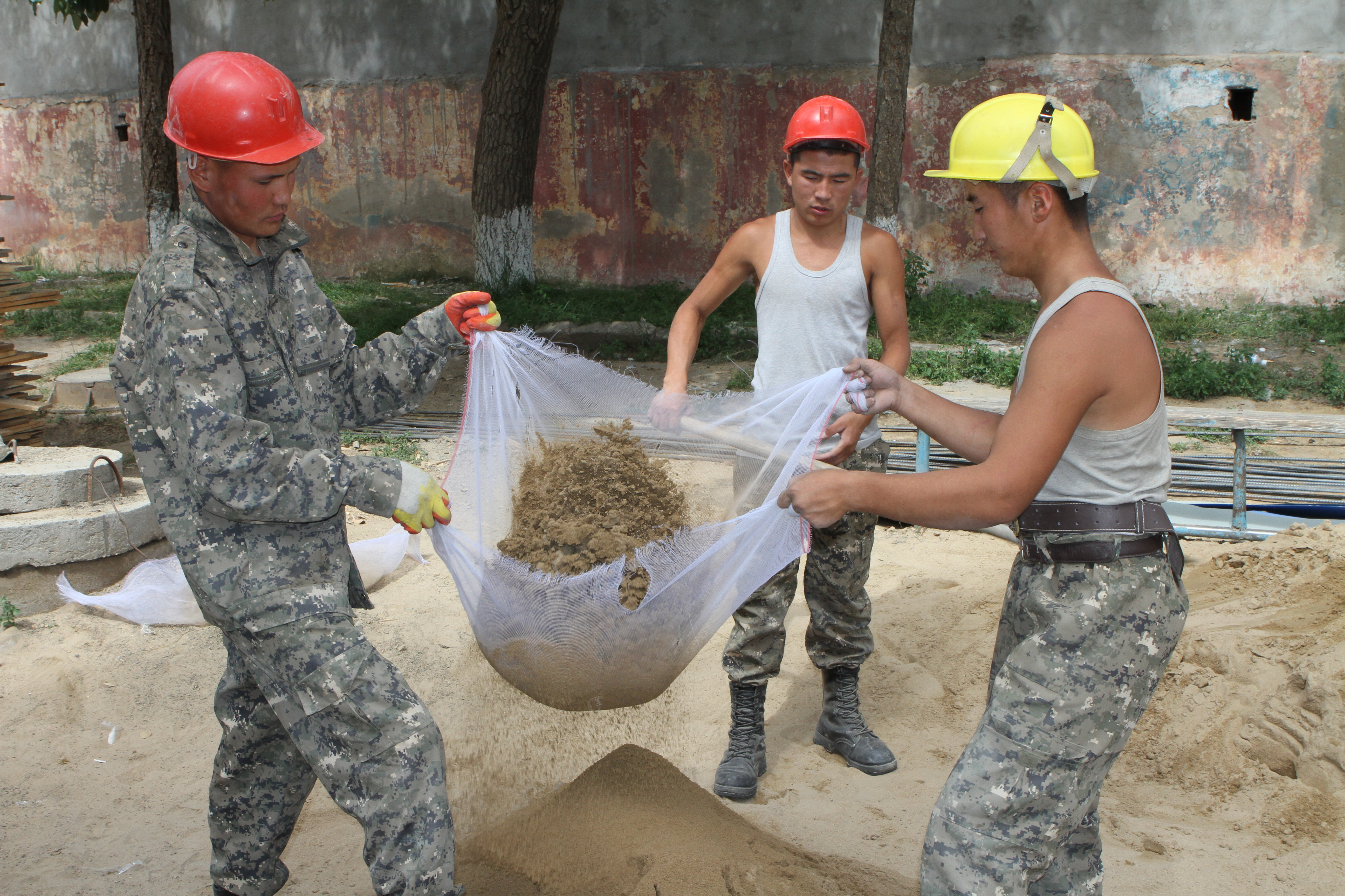 Mongolian soldiers with a construction and engineering unit sift sand during renovation work as part of exercise Khaan Quest 2013 at Erdmiin Oyun High School in Nalaikh district, Ulaanbaatar, Mongolia, July 27, 2013. Khaan Quest is an annual multinational exercise sponsored by the U.S. and Mongolia, and it is designed to strengthen the capabilities of U.S., Mongolian and other nations' forces in international peace support operations.